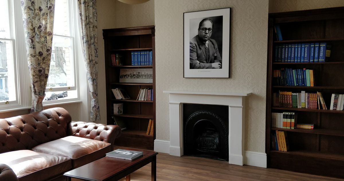 Interior of Ambedkar House, 10, King Henry Road